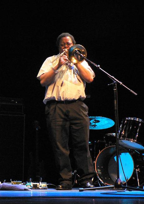 George Lewis (cropped version)